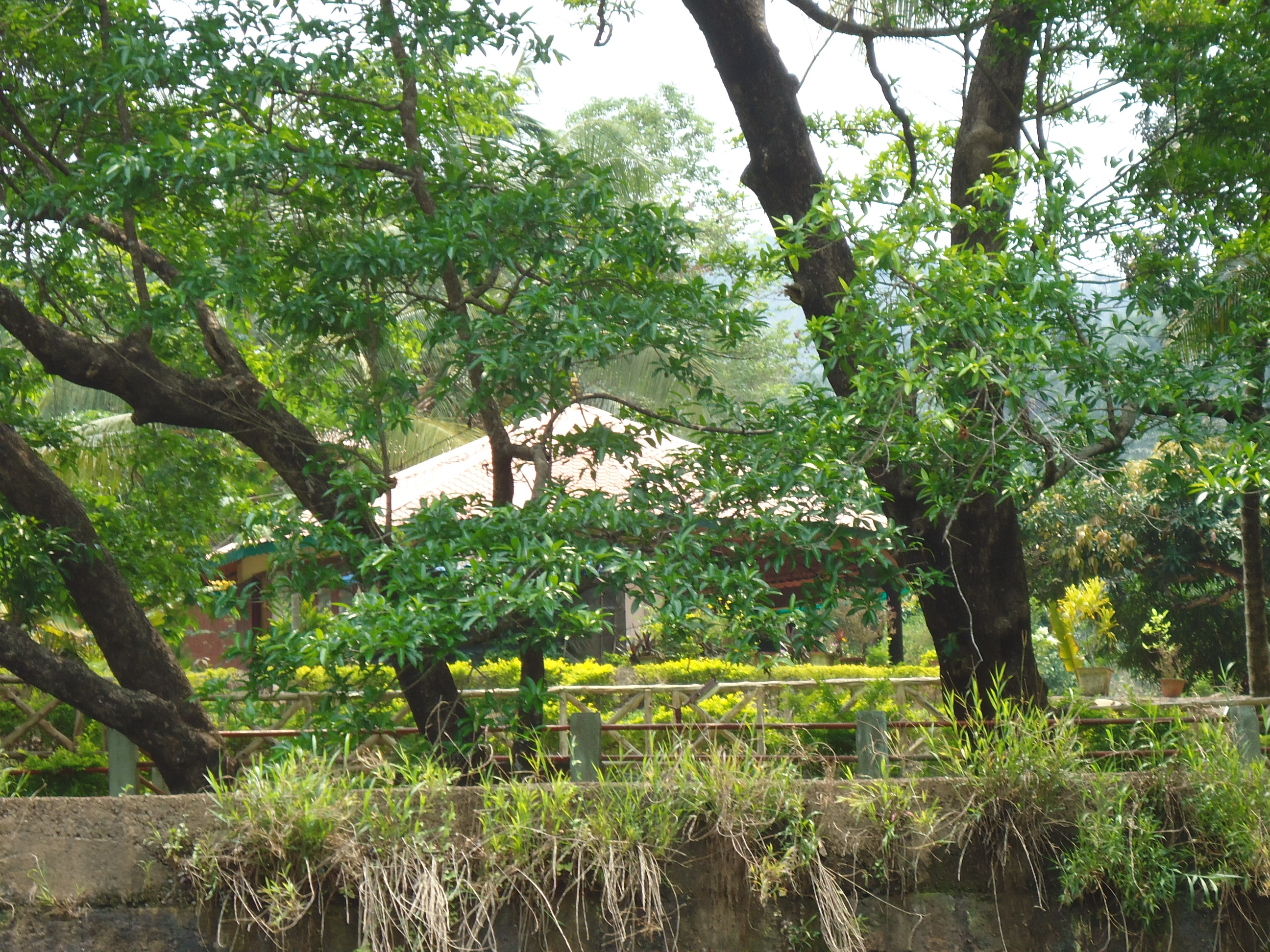 Ezhattumugham Prakrithi Gramam - A Tourist place in the angamaly - Athirppilly Route.